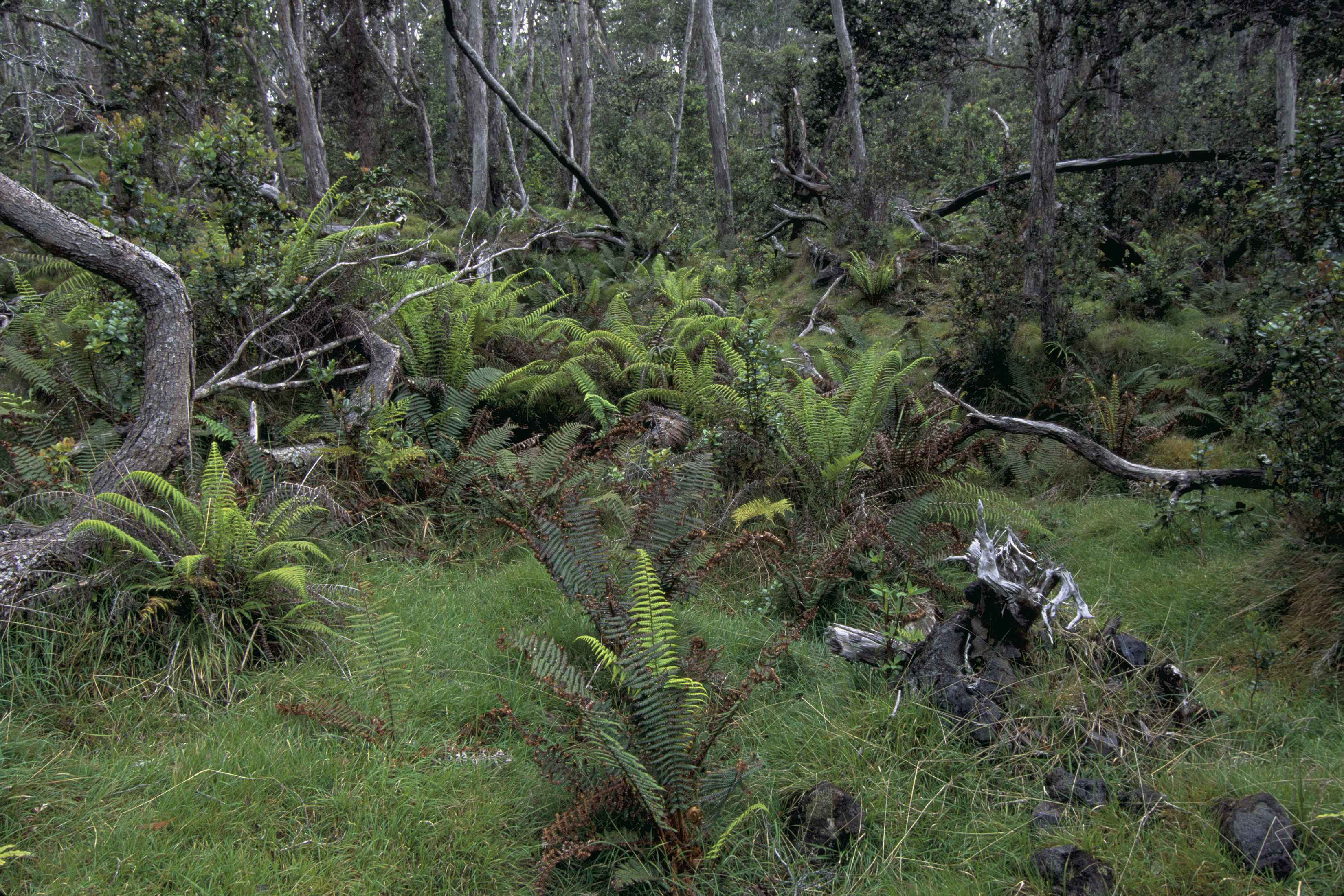 Image title: Hakalau forest national wildlife refuge Image from Public domain images website